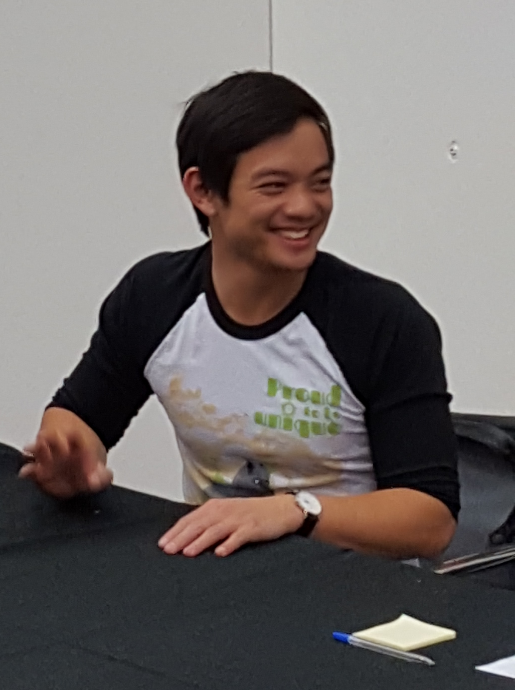 Osric Chau, Canadian actor at a science fiction convention in Stockholm International Fairs in 2015